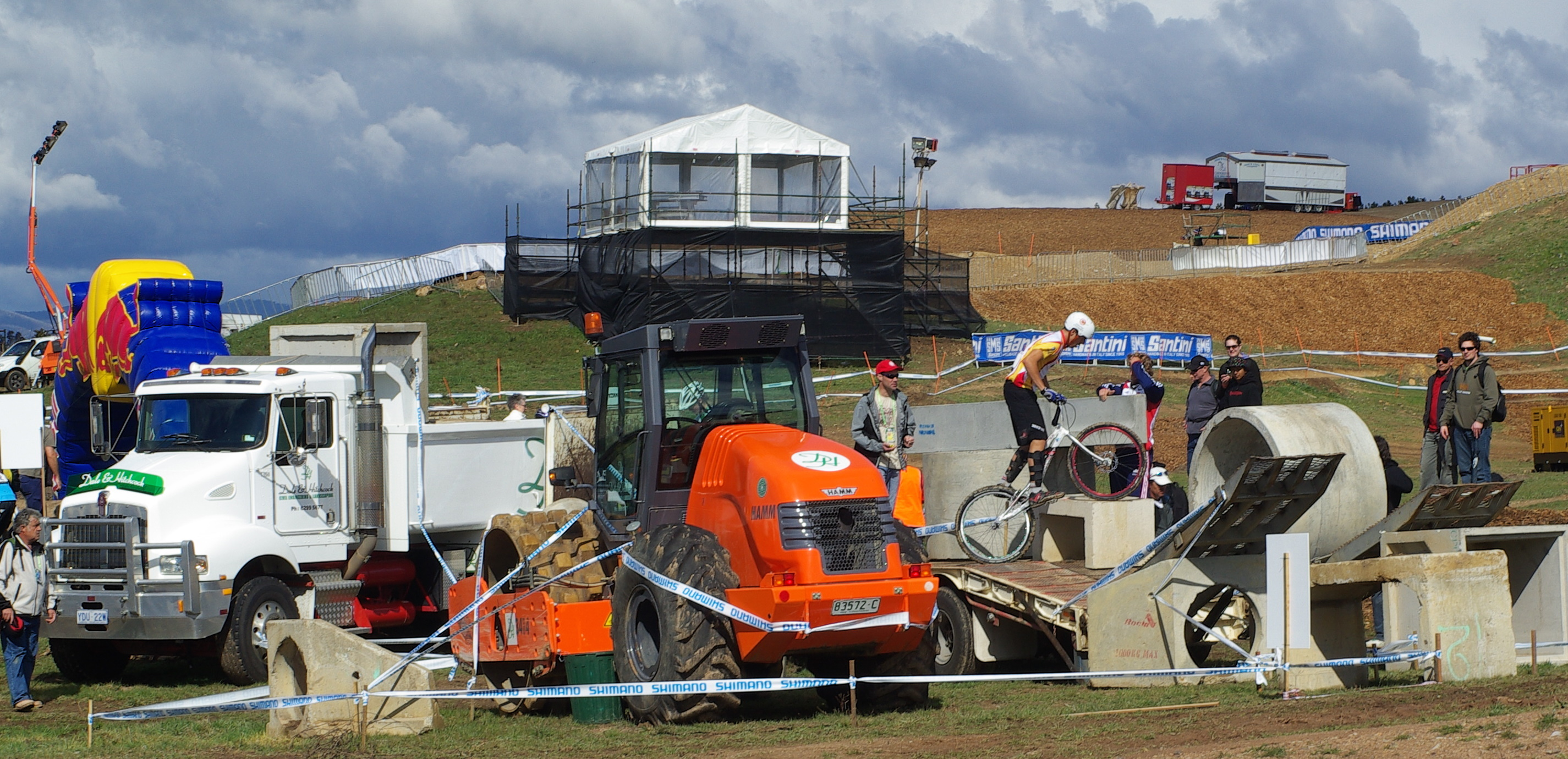 Competitor in the observed trials events at the 2009 UCI Mountain Bike & Trials World Championships held in Canberra, Australia.